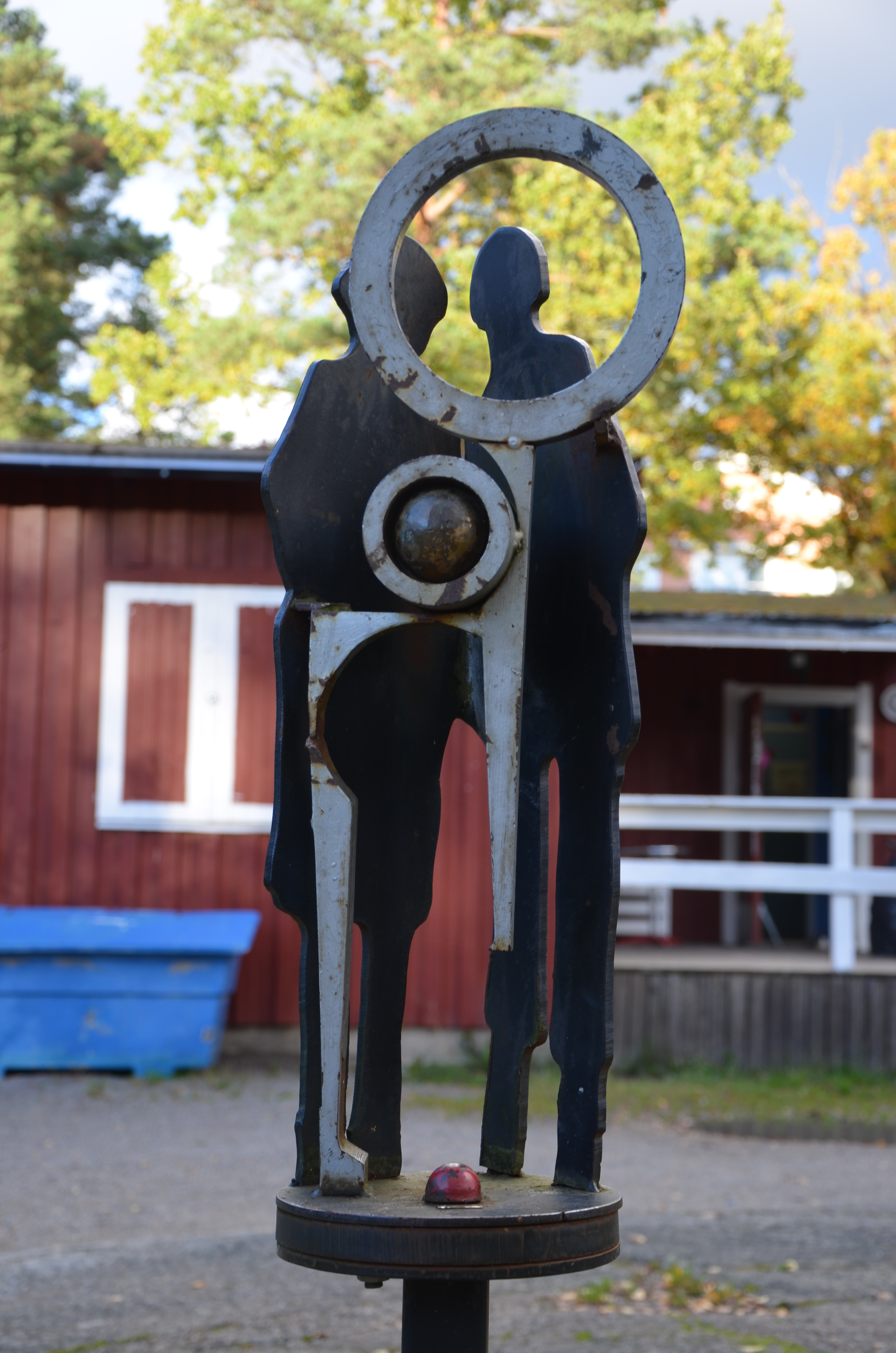 Vardagskärlek, av Gösta Ståhle, Solberga, Stockholm